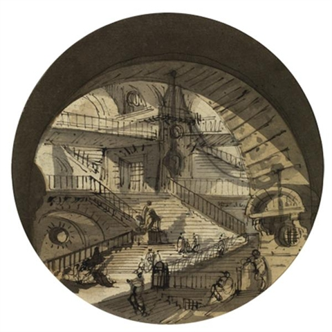 pen with ink and wash 6 x 6 in. / 15,2 x 15,2 cm.